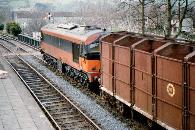 Fertiliser train at Cahir. CIE locomotive 052 about to depart Cahir station with a westbound fertiliser train. It had crossed the 16.50 Limerick Jct - Rosslare Harbour passenger train.